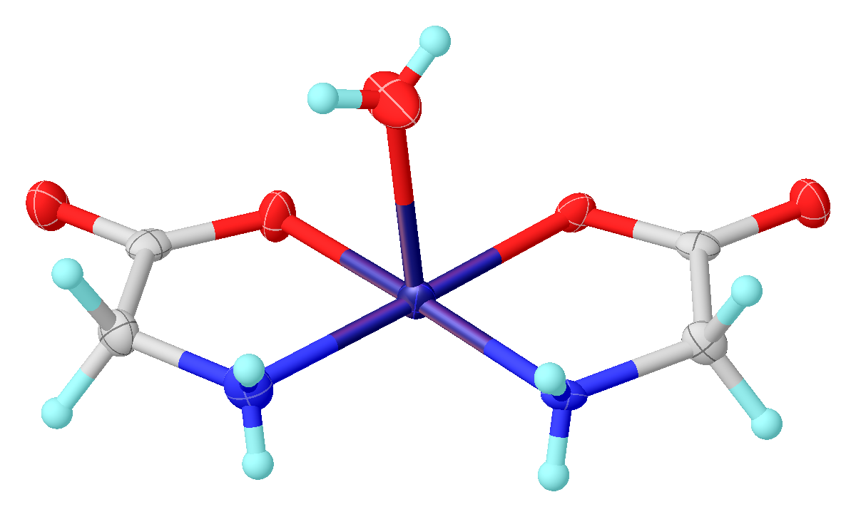 structure of cis-Cu(glycinate)2(H2O)